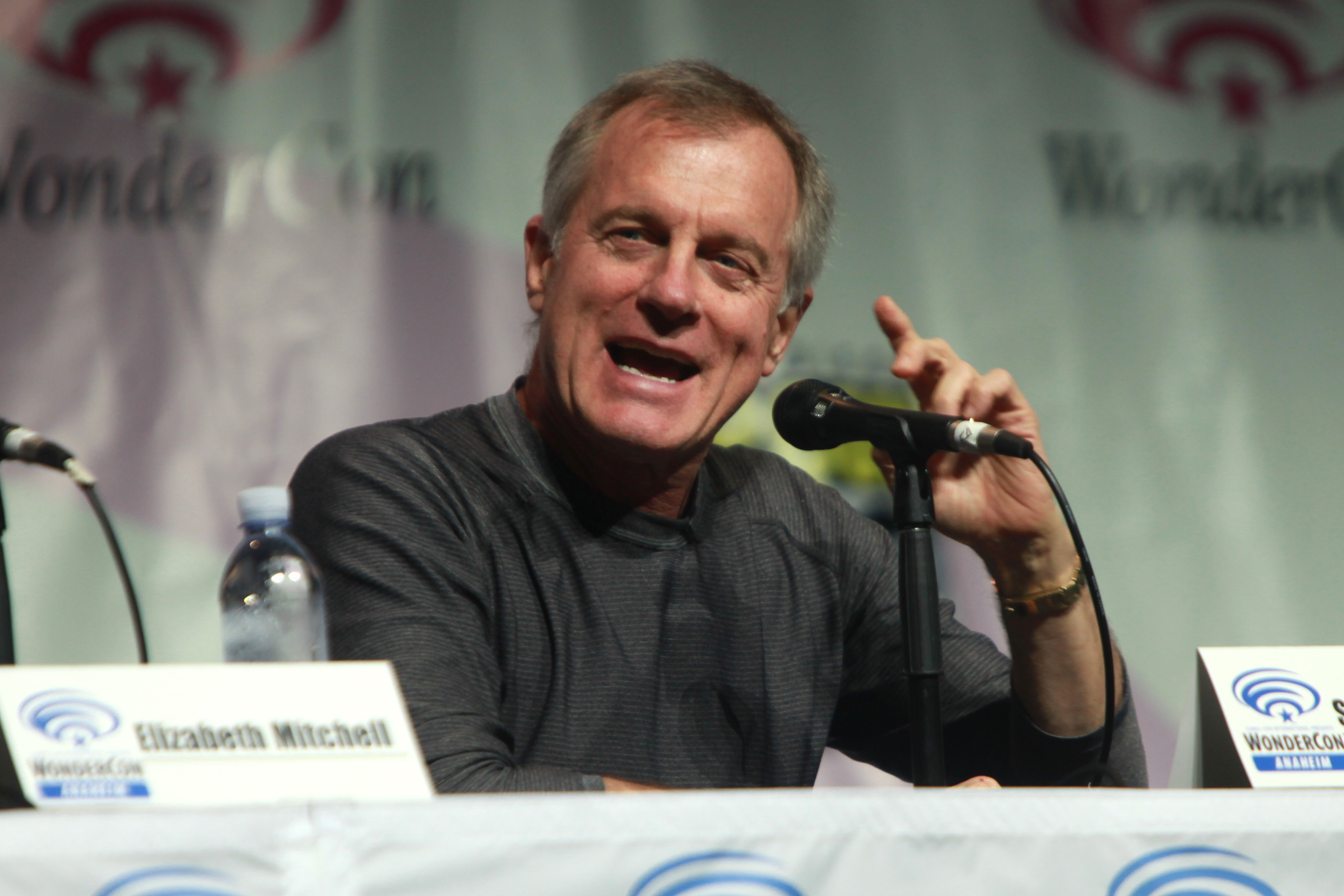 Stephen Collins speaking at the 2014 WonderCon, for "Revolution", at the Anaheim Convention Center in Anaheim, California.